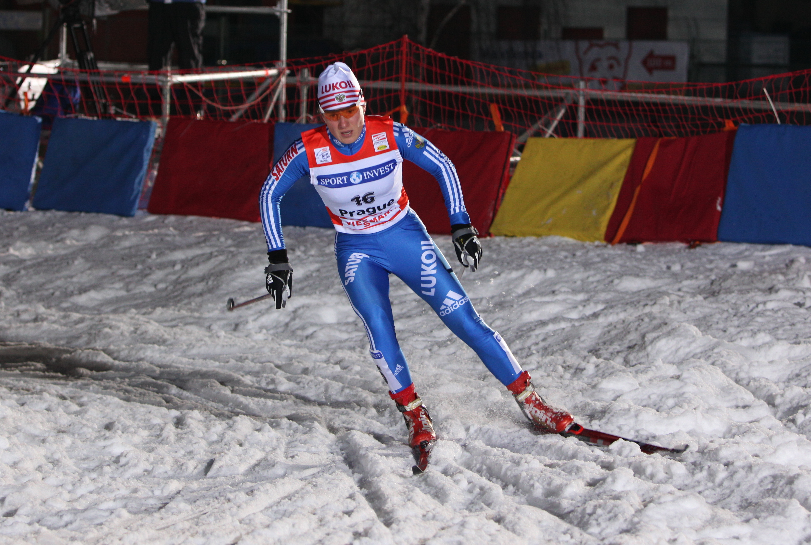 Yuliya Chekaleva competes at Ski Sprint Praha in 2010